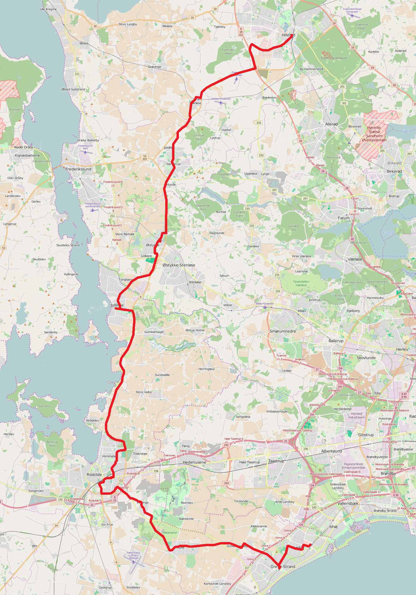 Map of Copenhagen bus line 600S between Hillerød Station and Hundige Station as of October 2019. This map may be incomplete, and may contain errors. Don't rely solely on it for navigation.